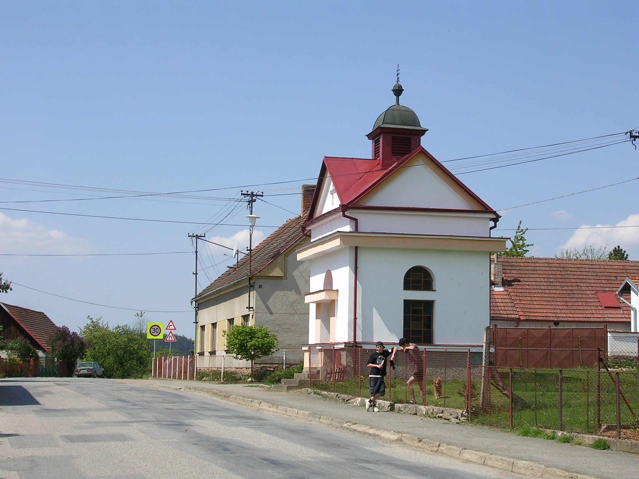 Salačova Lhota, Vysočina Region, the Czech Republic.